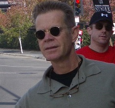 American movie actor William H. Macy stops traffic during Screenwriters' strike.